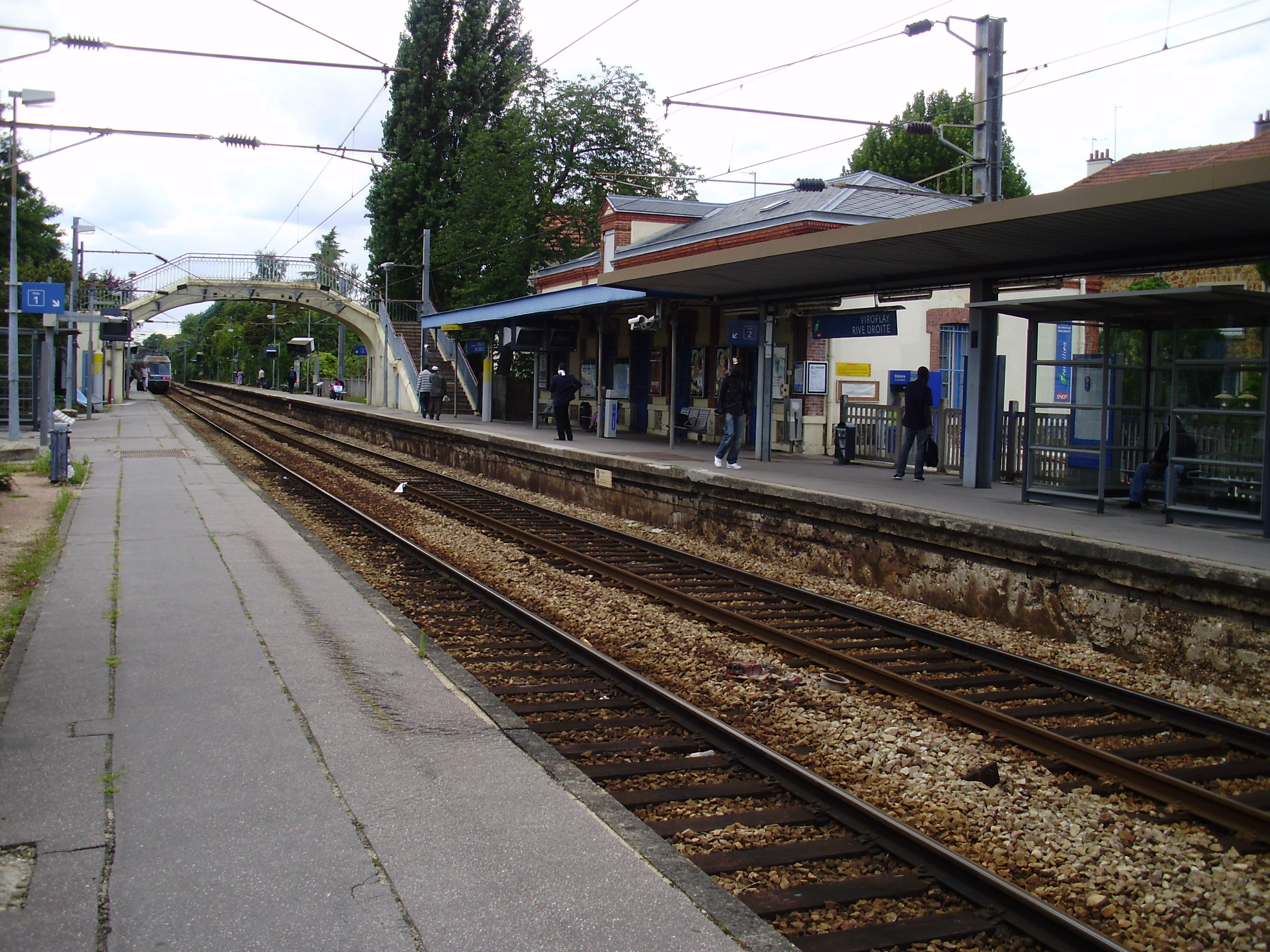 Viroflay - Rive Droite station, in Viroflay, Yvelines, France (building of the station and footbridge from the platform to Versailles)